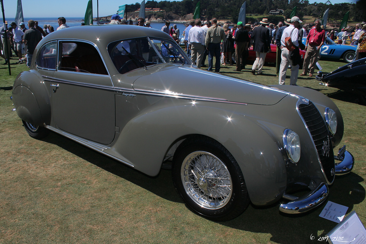 Pebble Beach Concours dElegance 2007